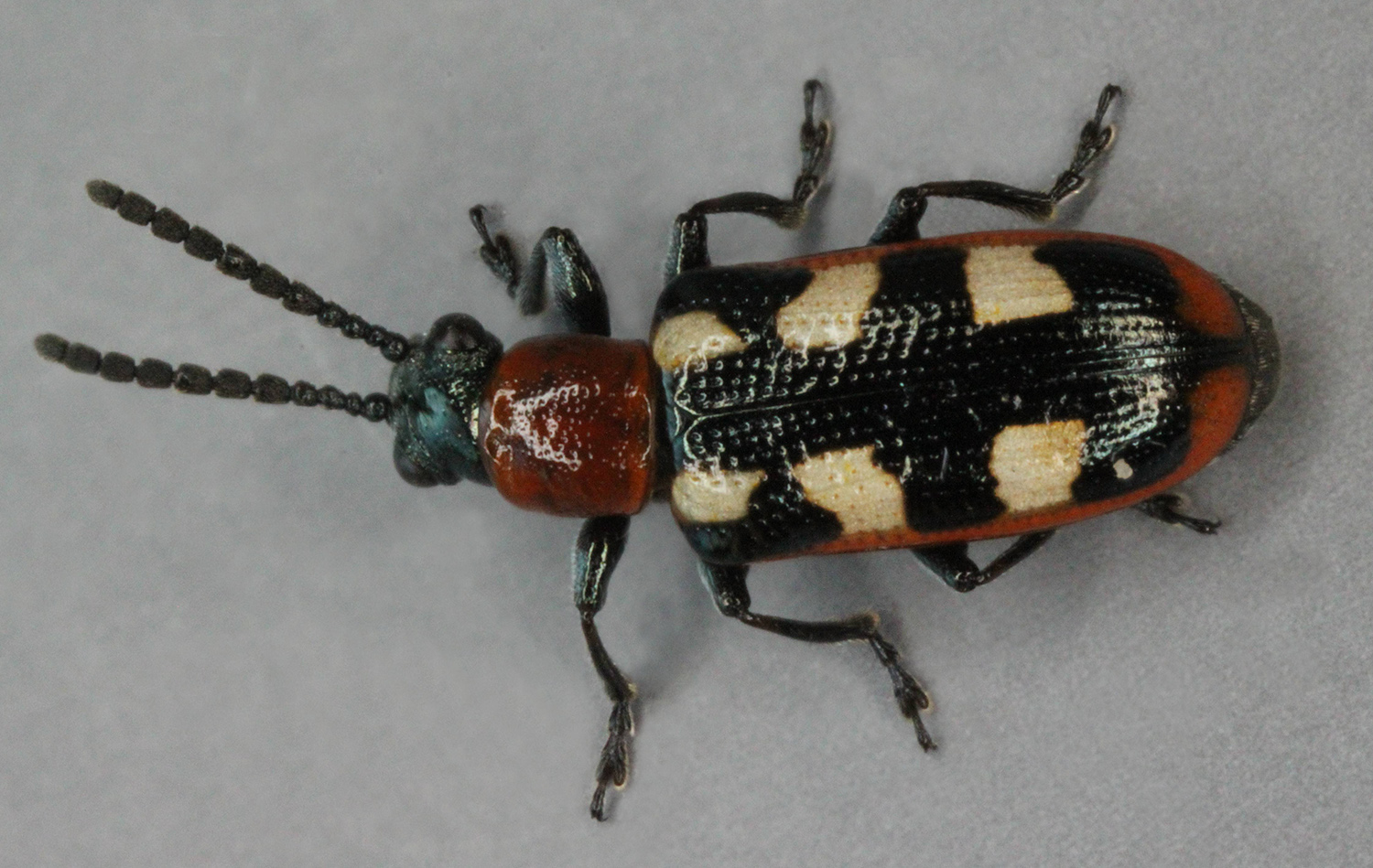 Crioceris asparagi, Hampshire, July 2011